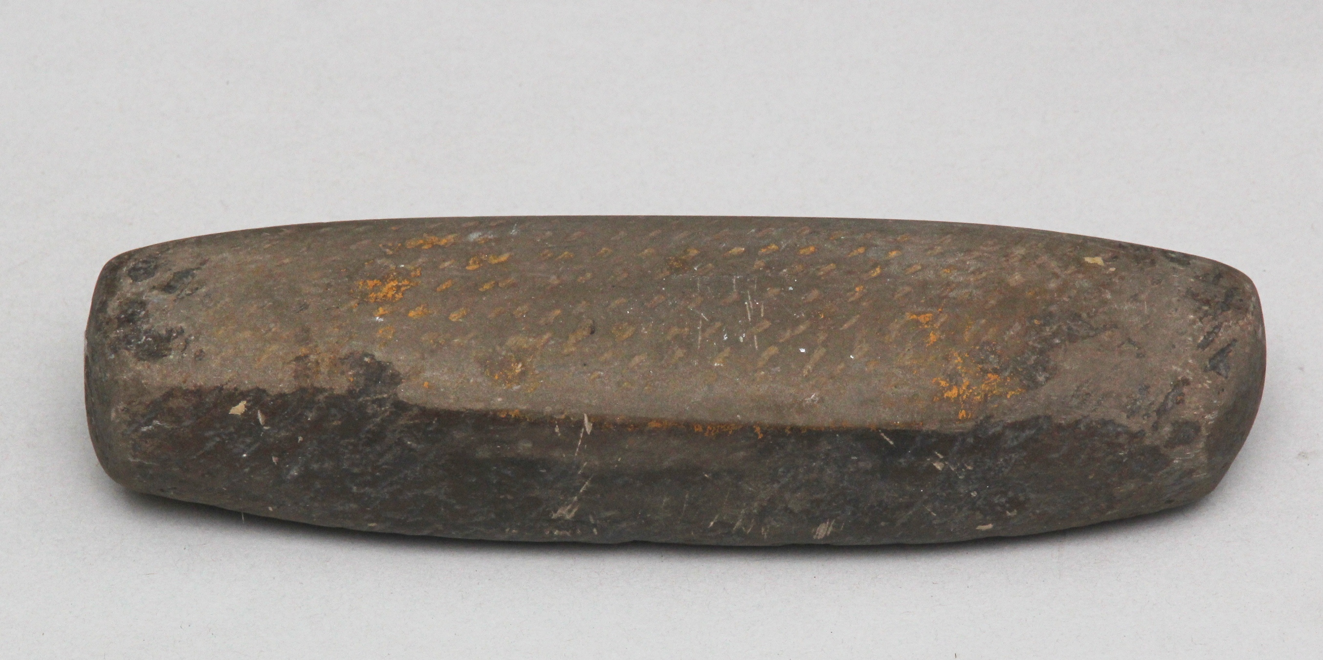 The roller part of two pieces of stones used to crush spices at home in Bangladesh and other south Indian countries.